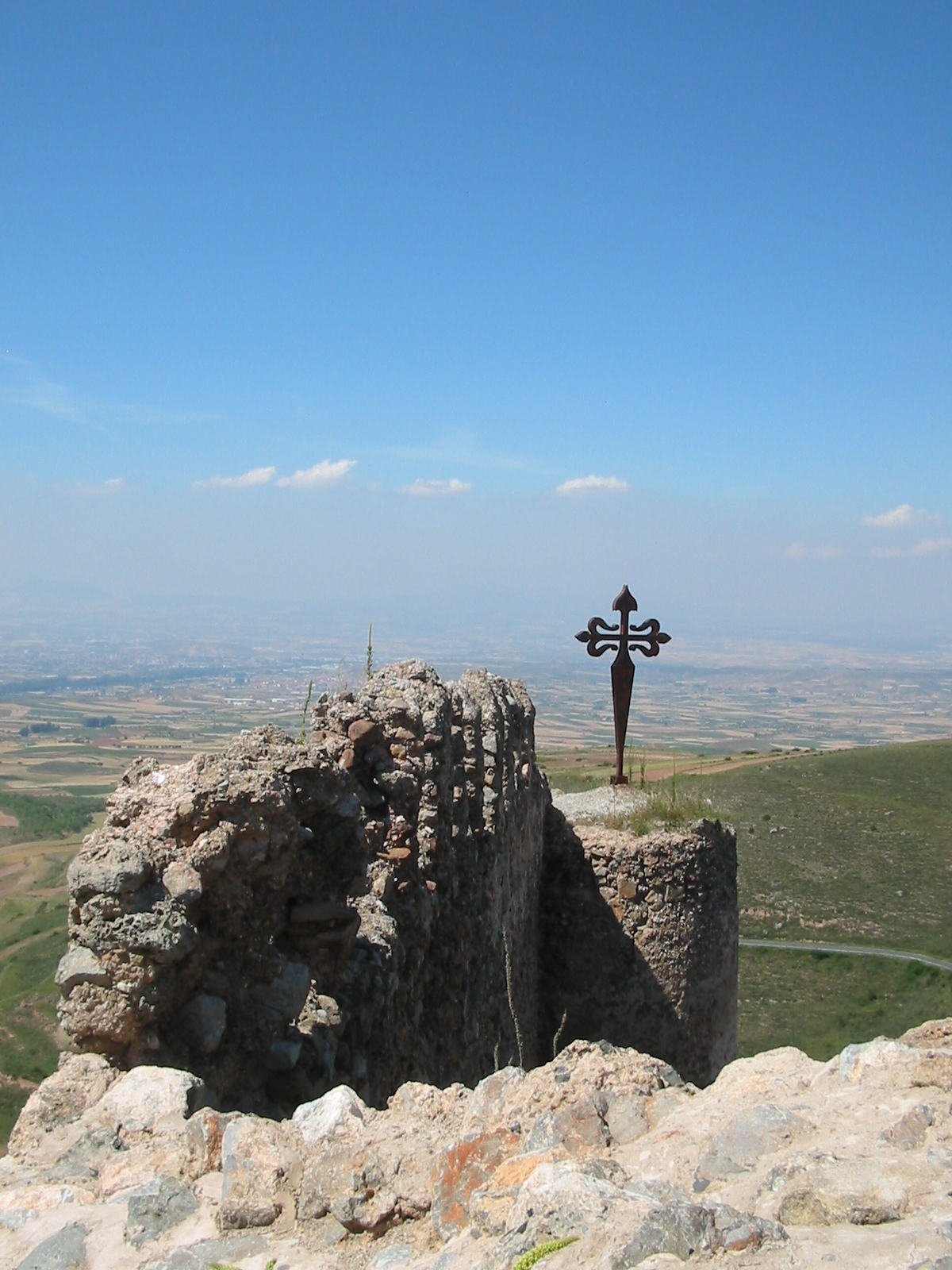 St. James's Cross in the ruins of Clavijo Castle in La Rioja (Spain)